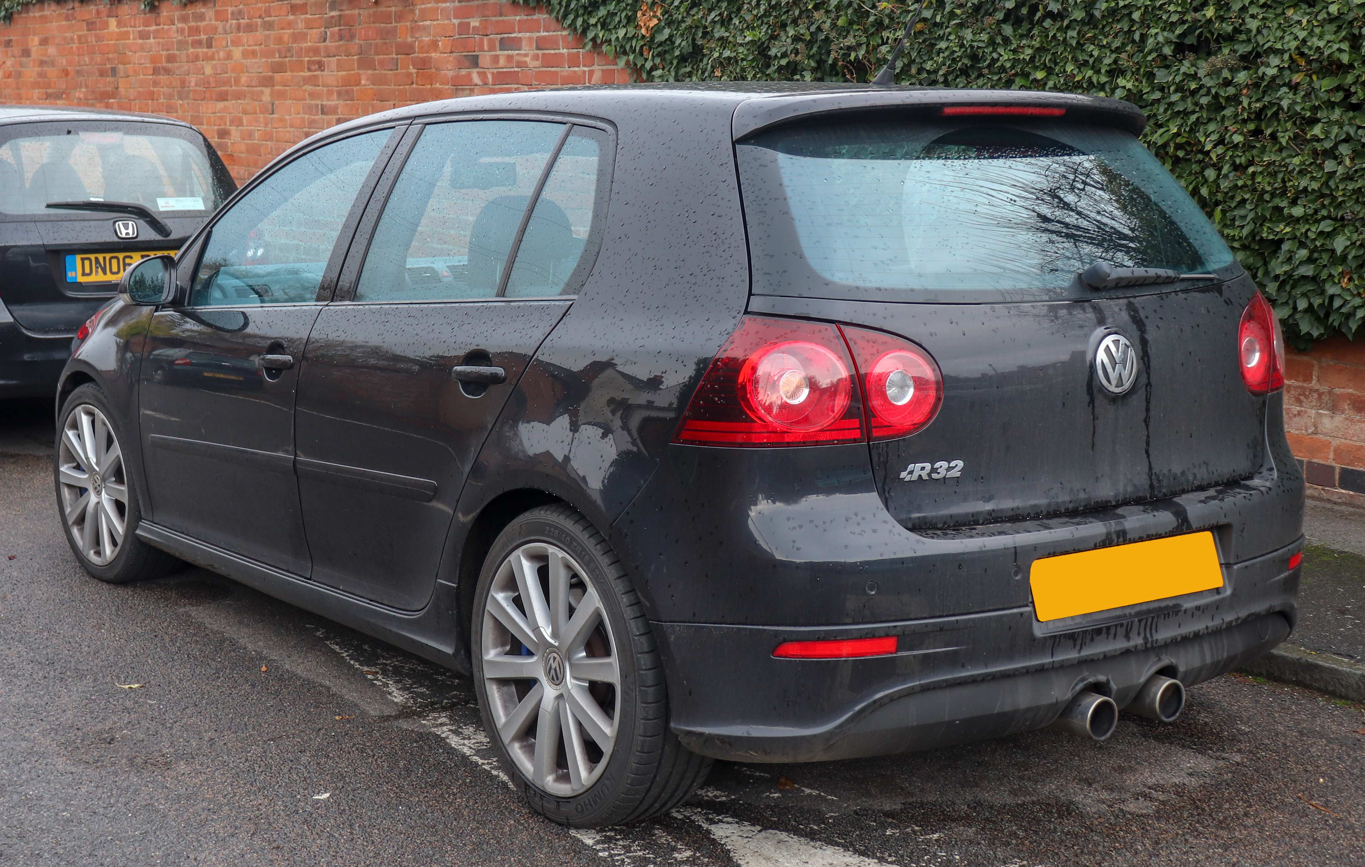 2008 Volkswagen Golf R32 Rear Taken in Leamington Spa